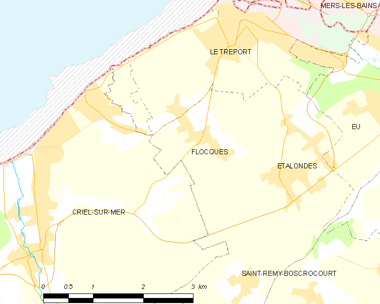 Map of French municipality Flocques